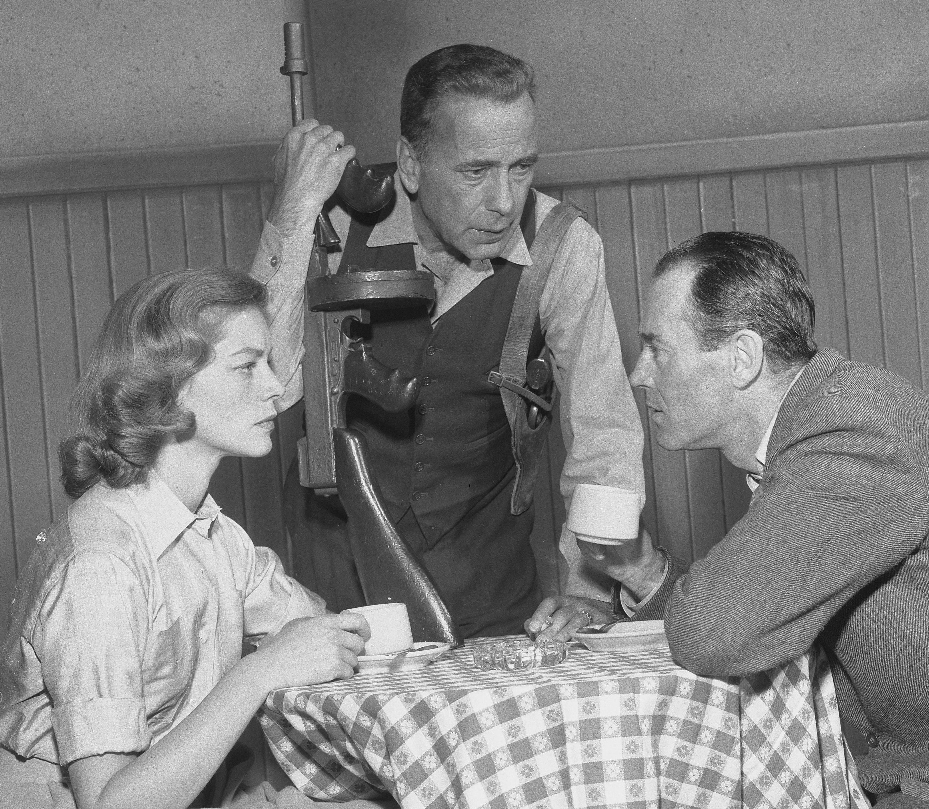 Title: Actors Lauren Bacall, Humphrey Bogart and Henry Fonda in scene from television broadcast play "Petrified Forest", 1955